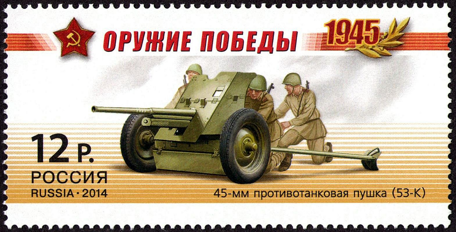 The weapon of the Victory (the ongoing stamp series). Issue VI: Artillery. The Soviet 45 mm anti-tank gun model 1937 (53-K). The stamp of Russia, 12.00 Rubles, 25 April 2014, PTC Marka Catalogue No 1820. Coated paper. Offset printing, multicoloured. Perforation: comb 13½×13½. Size of the stamp: 65×32.5 mm. Print run: 450,000.